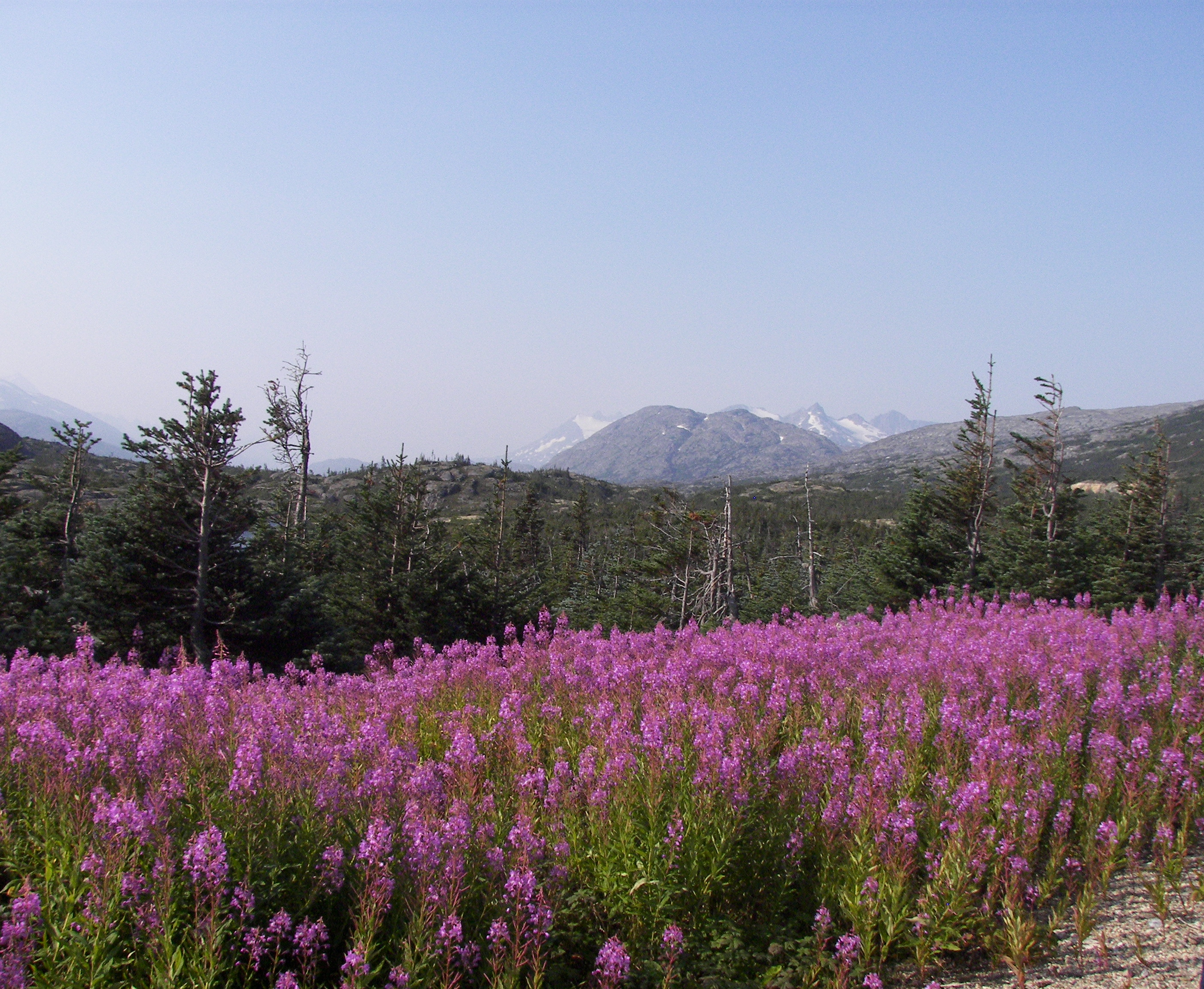 Fireweed on the Klondike Highway in British Columbia in the vicinity of Summit Lake and Bernard Lake near the Alaska border.